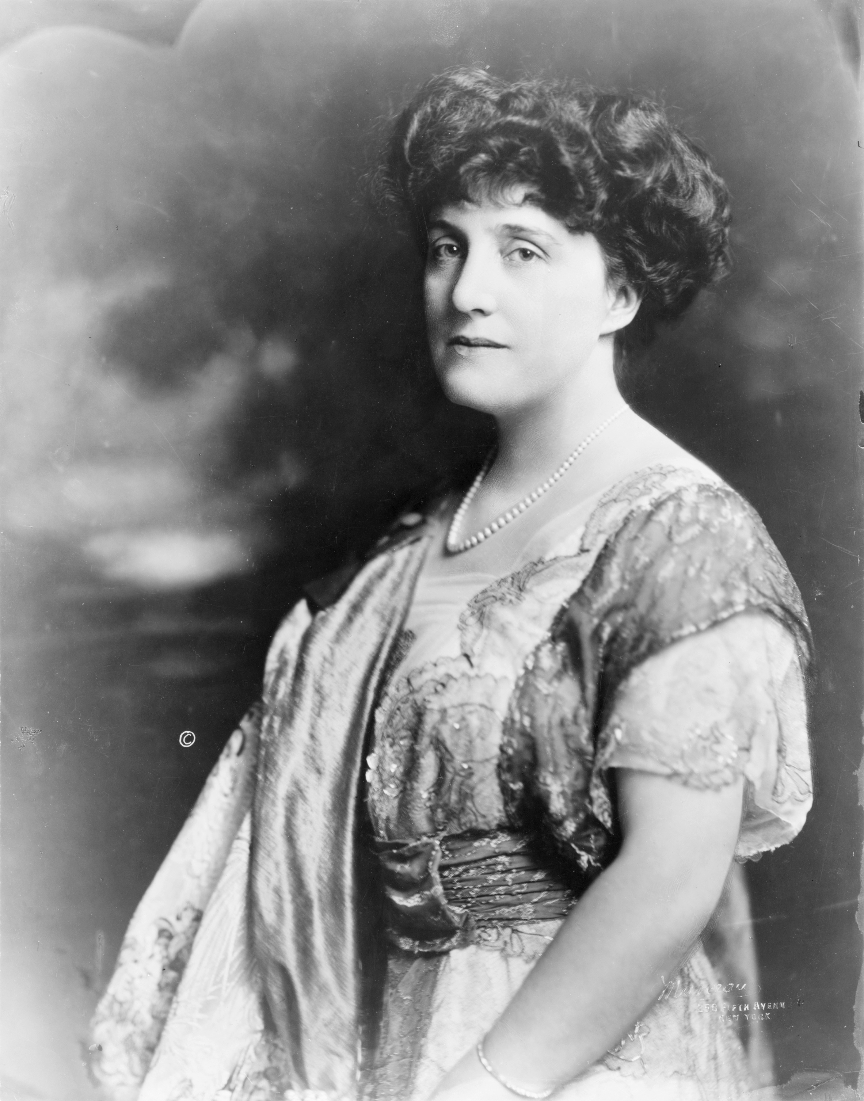 Author en: Mary Roberts Rinehart